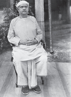 Swami Brahmananda, a direct disciple of Ramakrishna Paramahamsa.